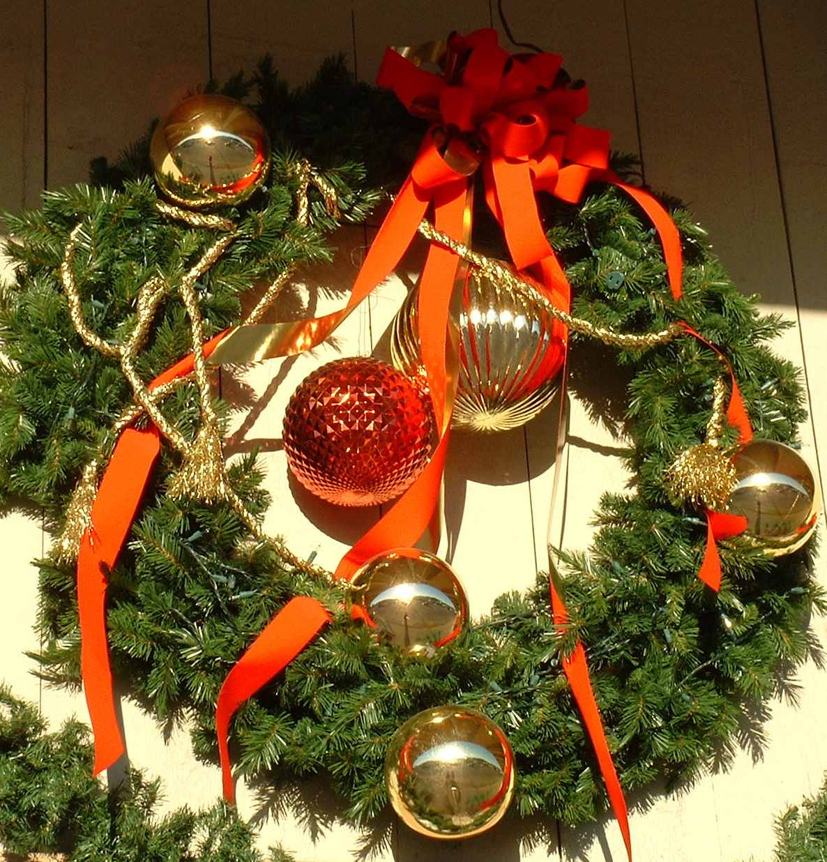 Christmas wreath